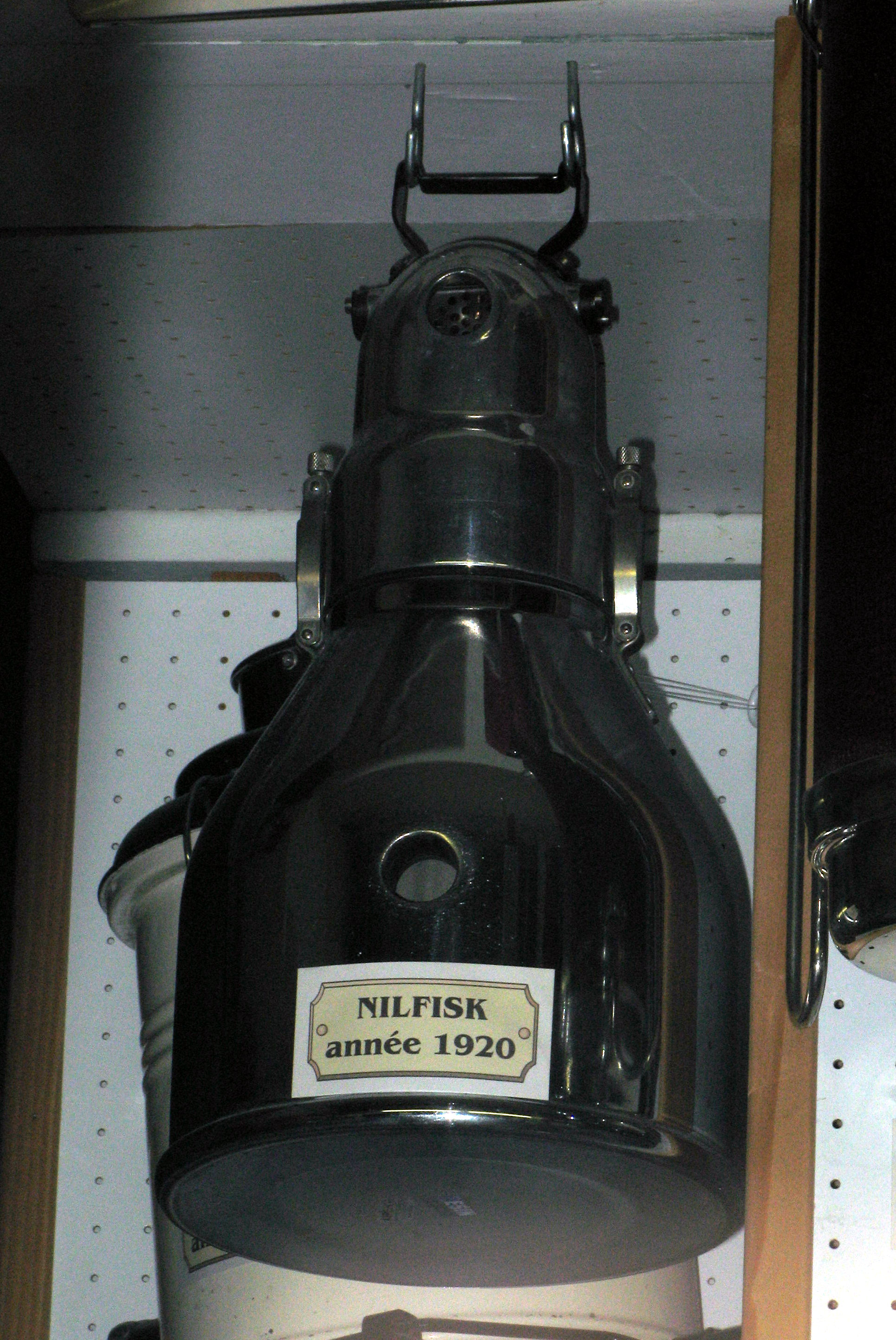 Vintage vacuum cleaner.